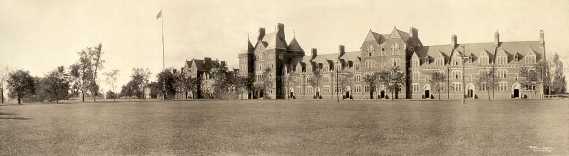 Panoramic view of Trinity College in Hartford, Connecticut, 1909; eBay store Web page states: "Trinity College Hartford, Connecticut 52"X17"Photo 1909